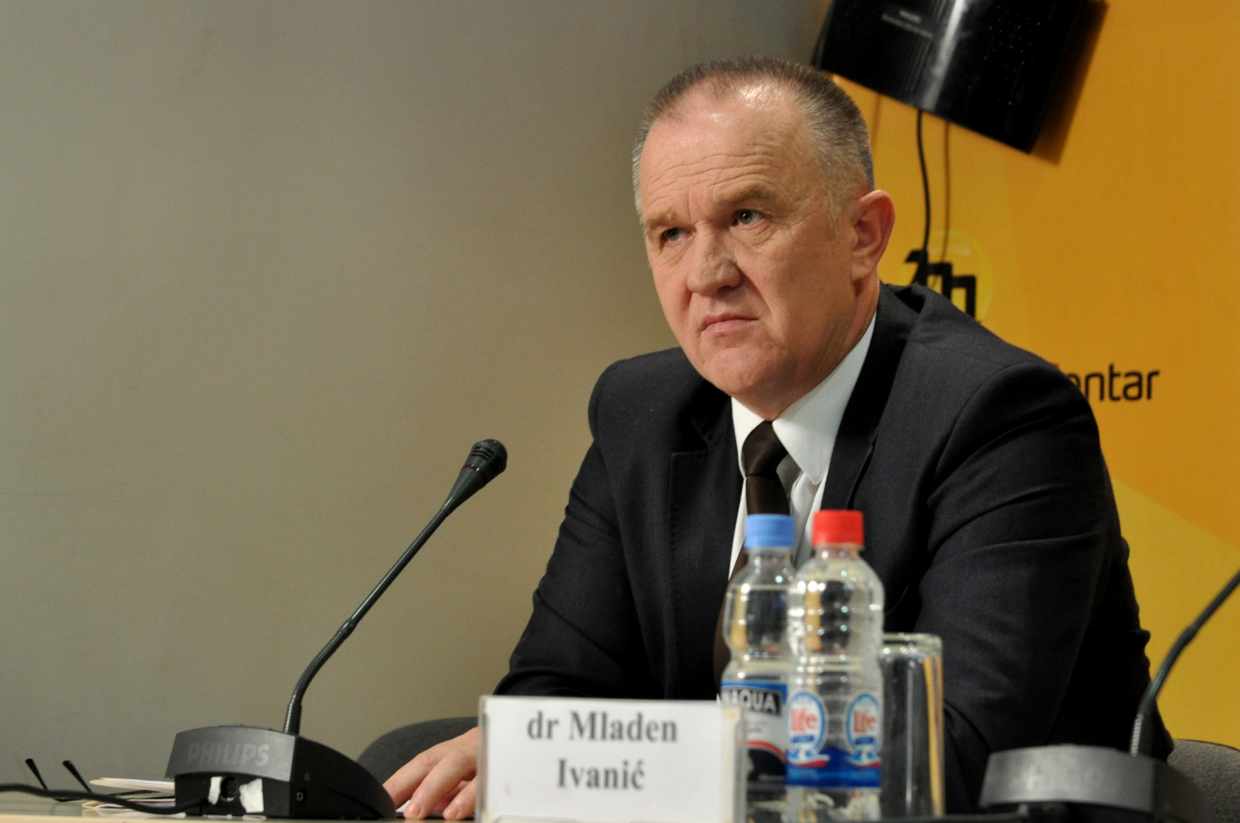 Dragan Čavić